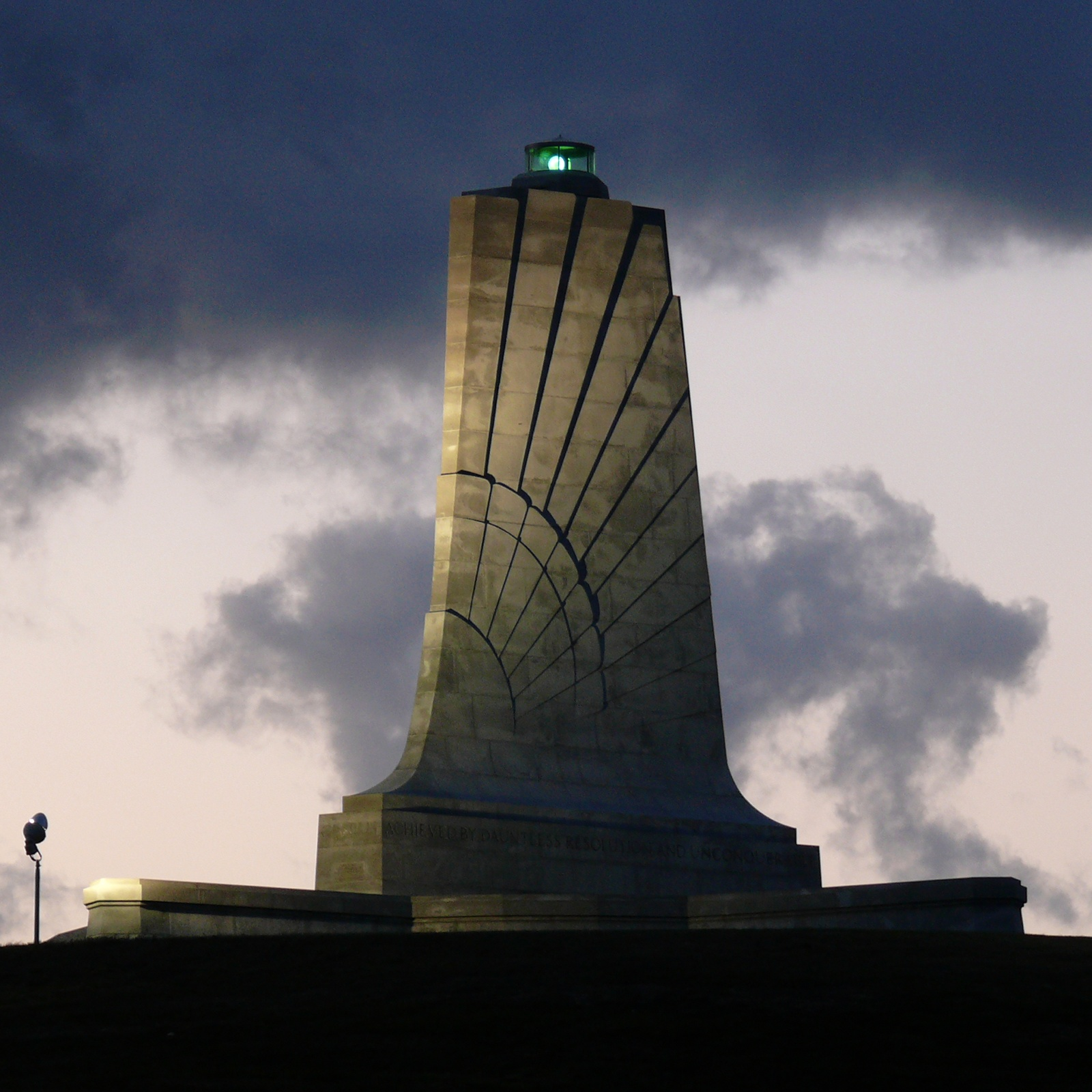 Standing sixty feet (18.3 meters) tall and perched atop a ninety foot (27.4 meters) stabilized sand dune known as Kill Devil Hill, this monument towers over Wright Brothers National Memorial Park in Kill Devil Hills, NC. The park commemorates and preserves the site where the Wright brothers launched the world's first successful sustained, powered flights in a heavier-than-air machine. The inscription that wraps around the base of the monument states "In commemoration of the conquest of the air by the brothers Wilbur and Orville Wright. Conceived by genius, achieved by dauntless resolution and unconquerable faith."Photo taken with a Panasonic Lumix DMC-FZ50 in Dare County, NC, USA.